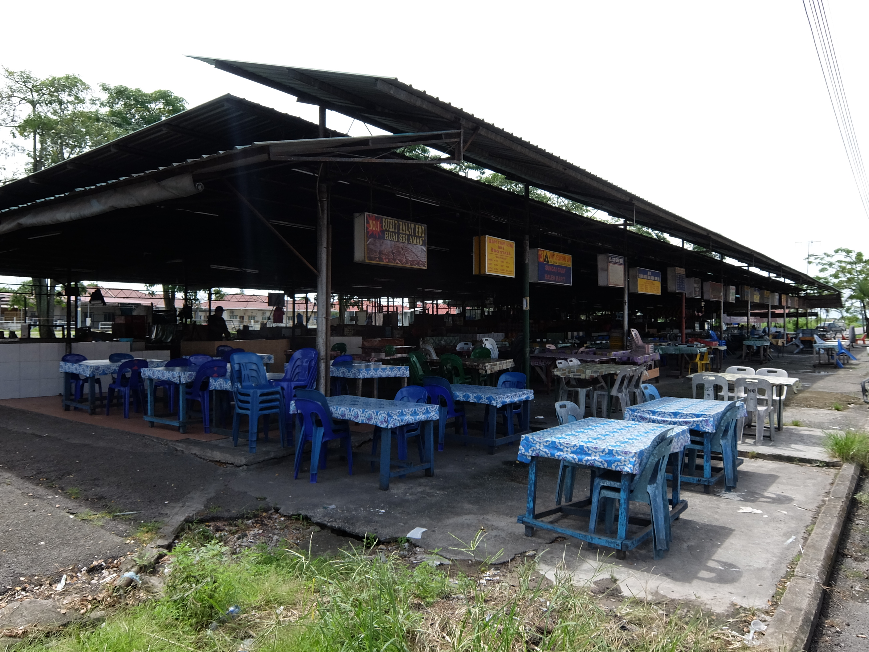 Rumah Asap, Miri, Sarawak, Malaysia